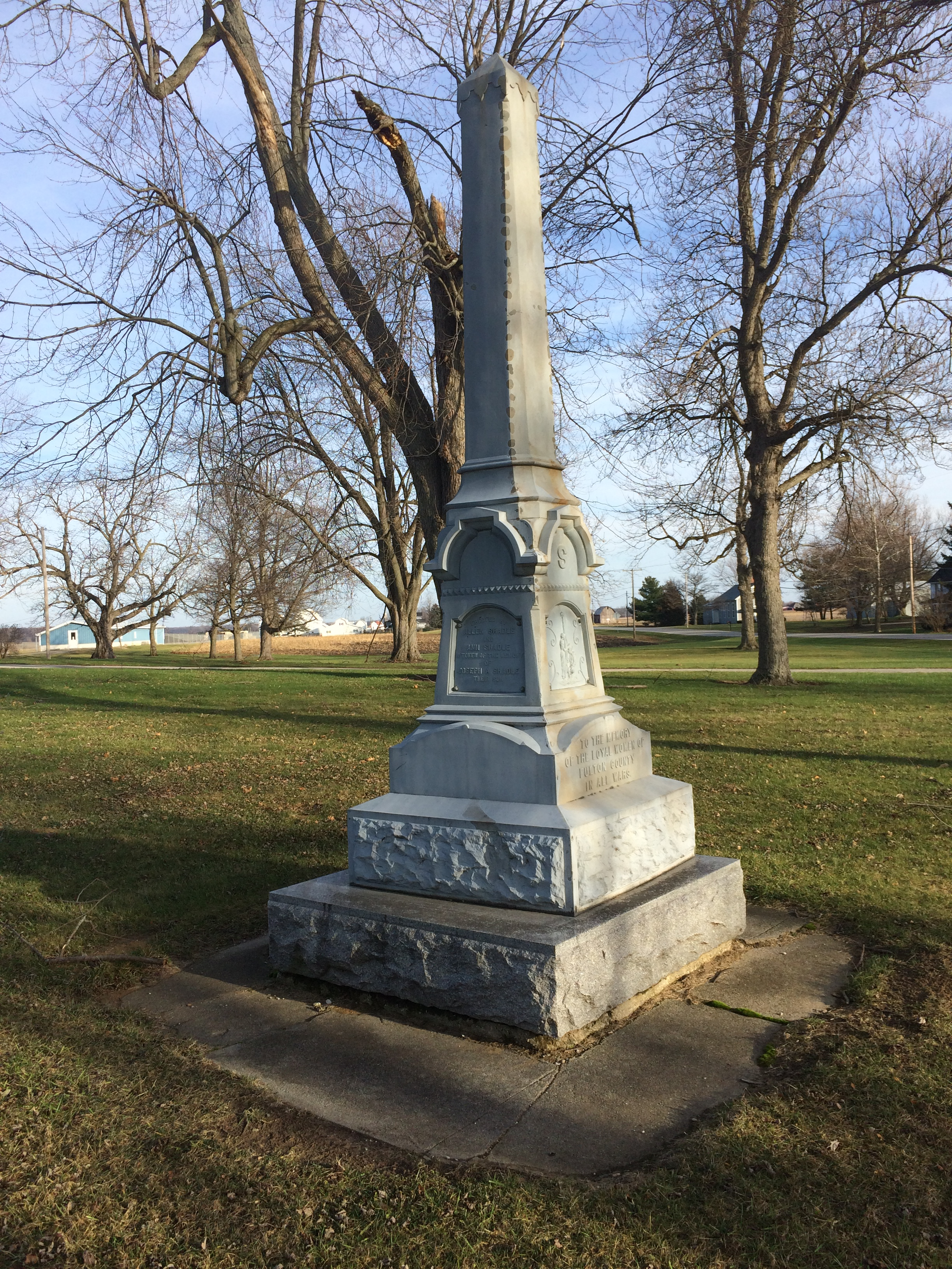 A notable monument to women in wartime stands in Ottokee, Ohio.